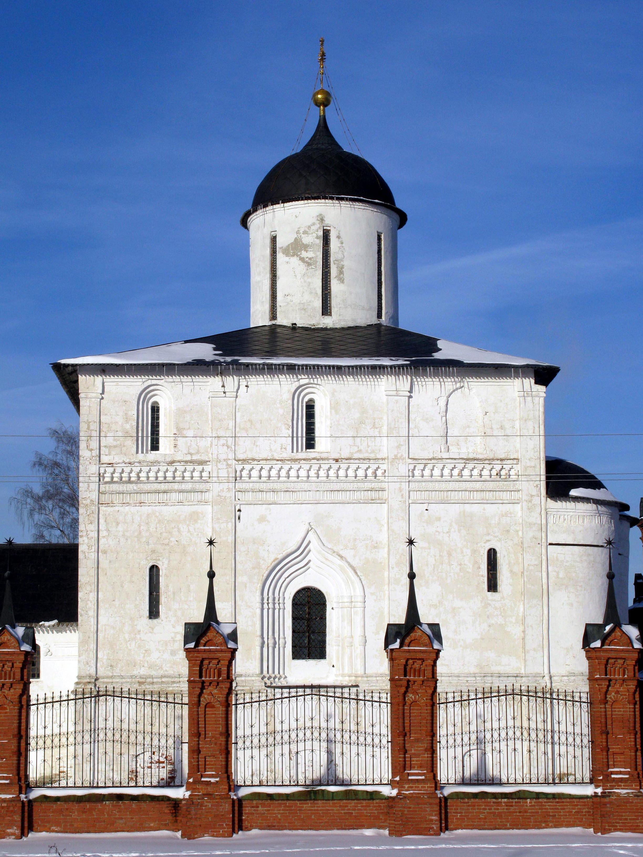 Cathedral of the Resurrection of Christ (Volokolamsk)